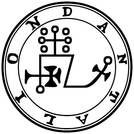 Dantalion seal, THE BOOK OF THE GOETIA OF SOLOMON THE KING (1904)